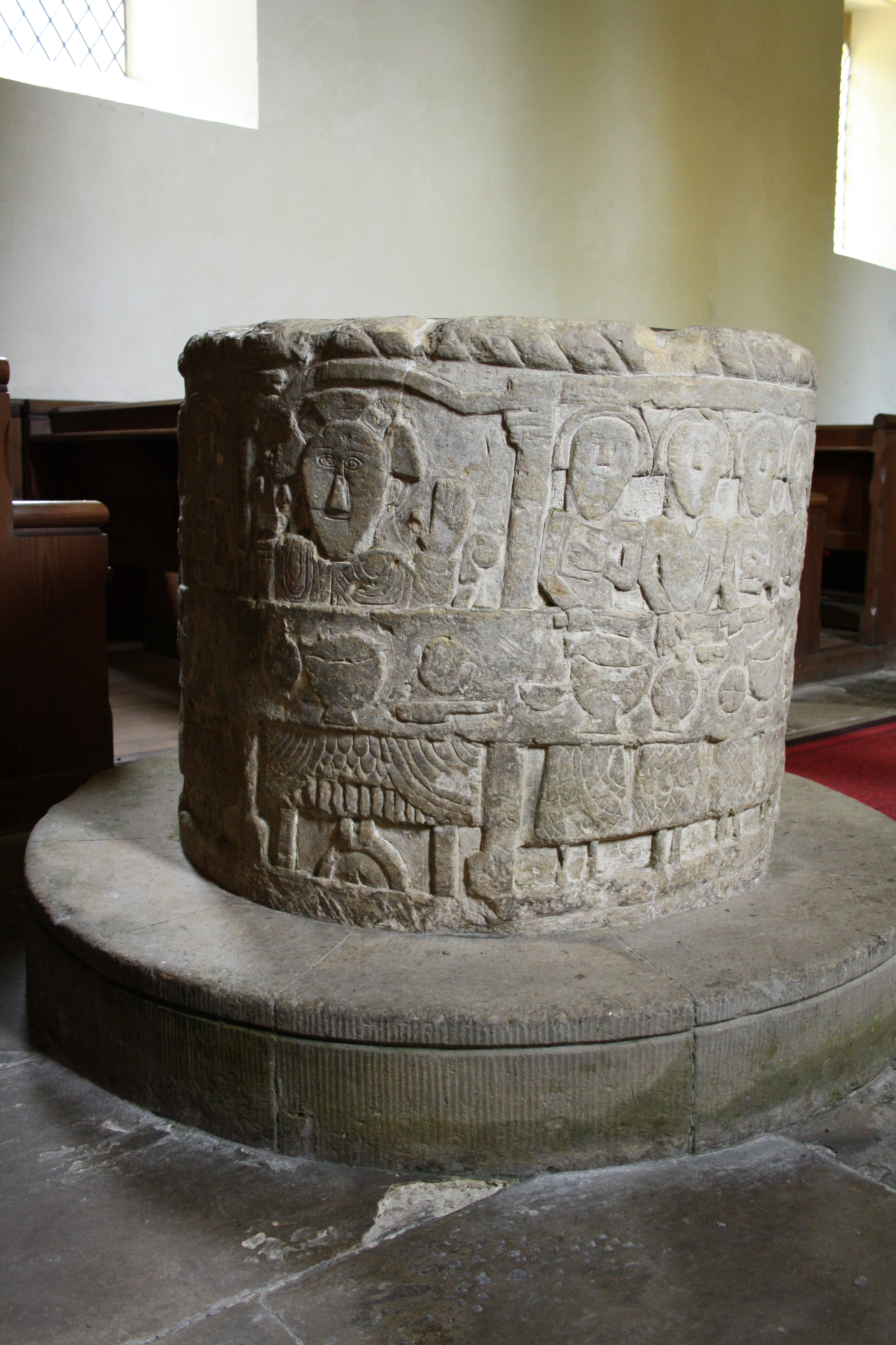 Font at St Nicholas Church, North Grimston